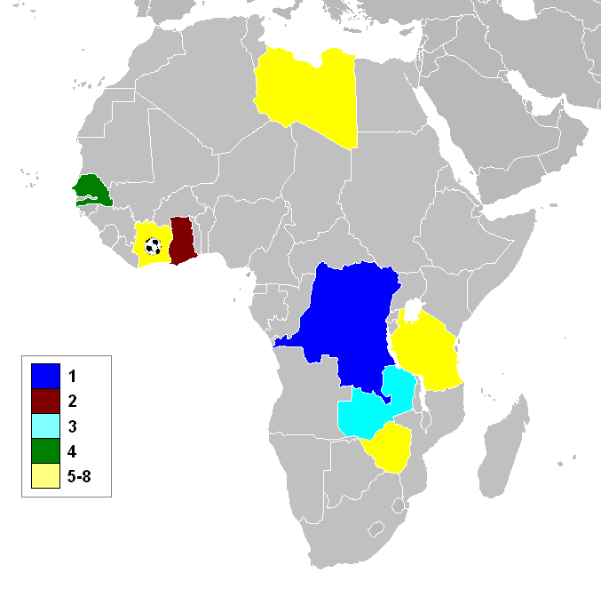 2009 African Nations Championship Qualified Teams.